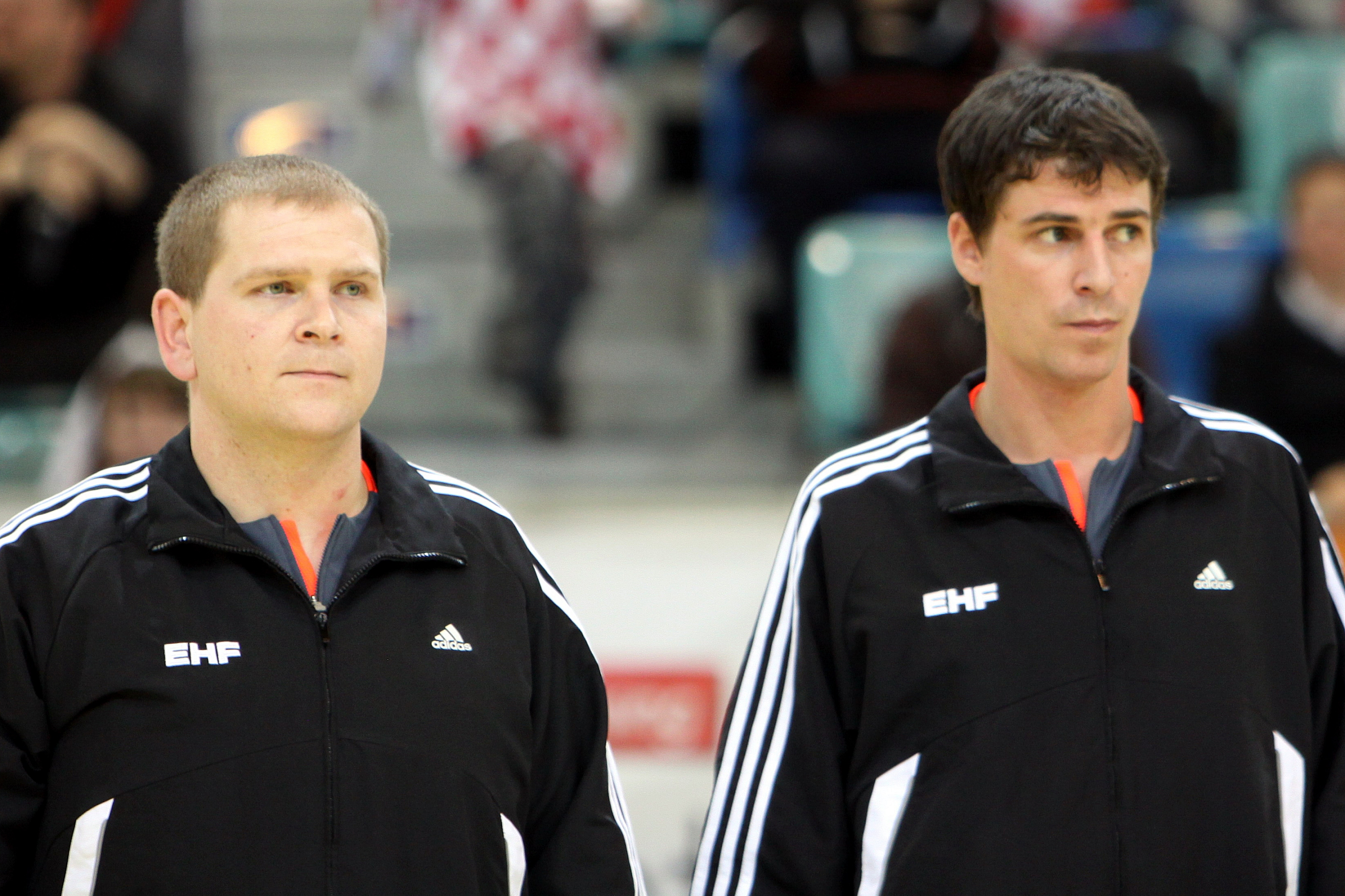 Václav Horáček and Jiri Novotny (Czech Republic), Referees of the 2010 European Men's Handball Championship